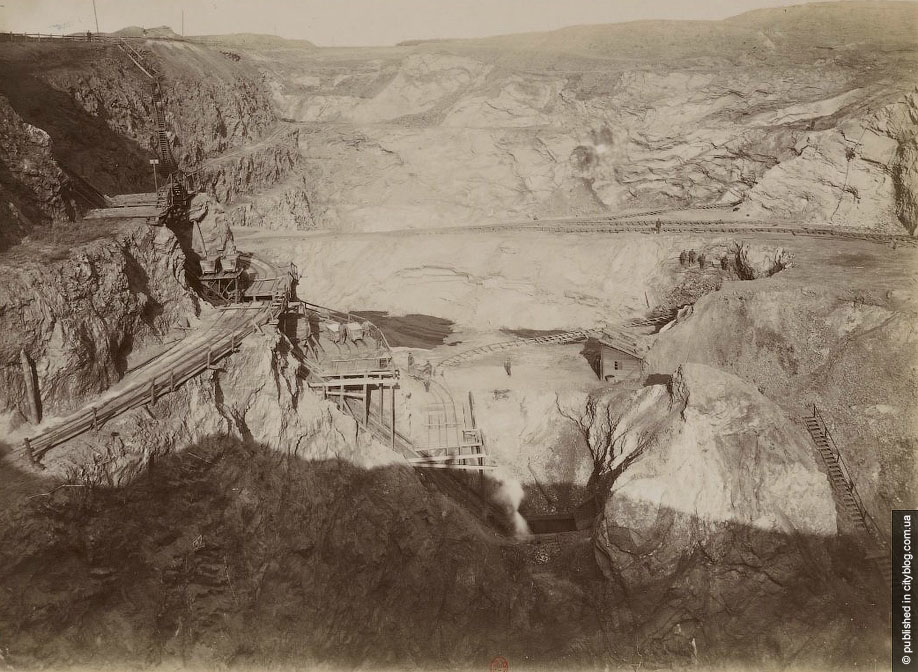 Industrial Revolution in Kryvyi Rih